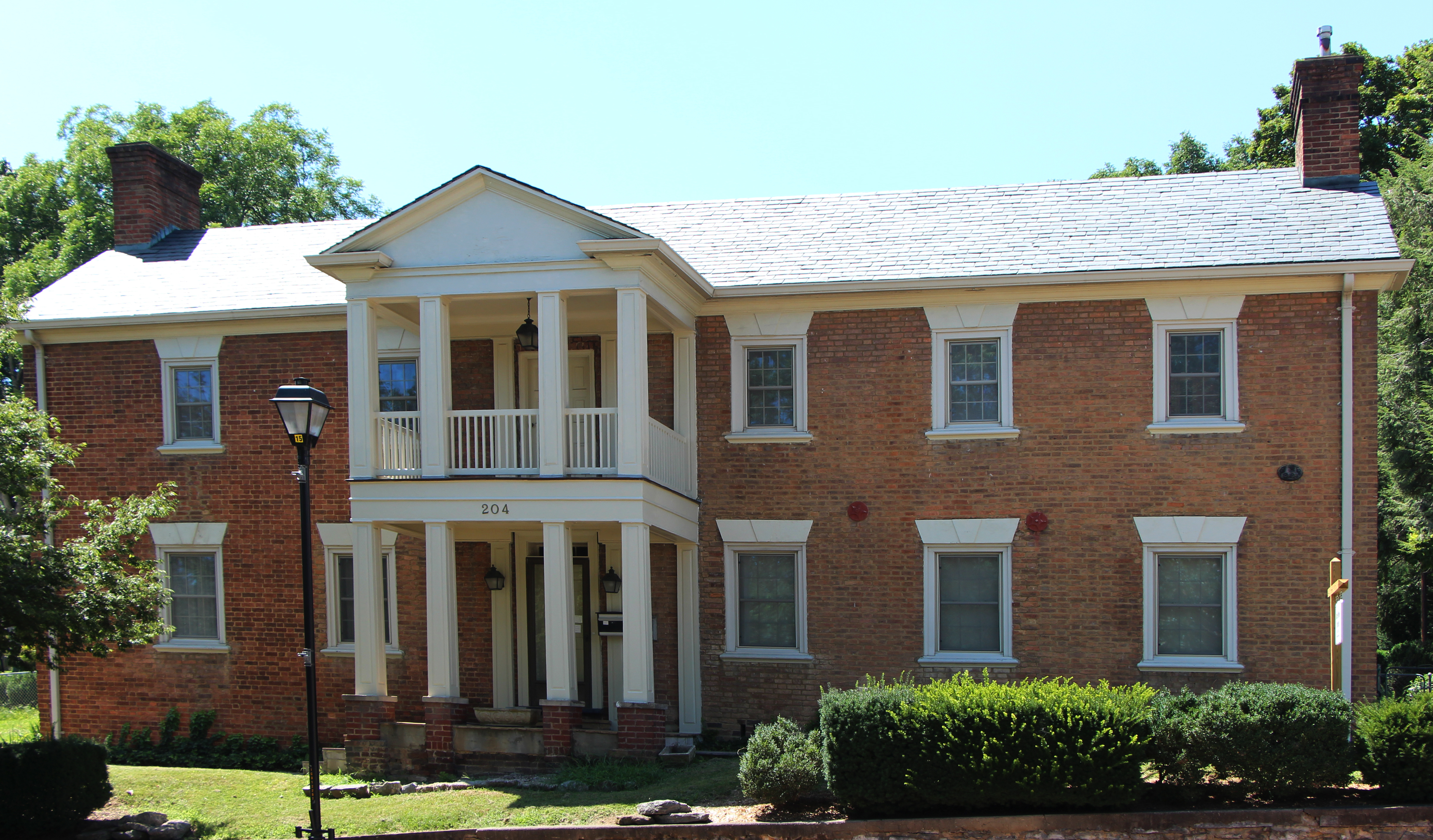 Clawson-McDowell-Brown Home, Greeneville, TN